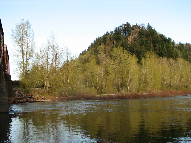 Lewis and Clark State Recreation Site, Multnomah County, Oregon, United States, viewed across the Sandy River from Troutdale, Oregon. Broughton's Bluff stands behind.